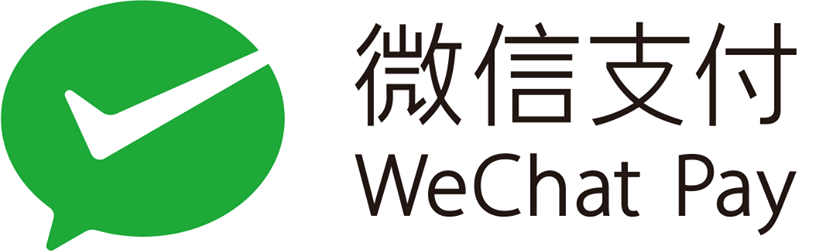 Logo of WeChat Pay